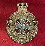 Cap Badge of the Bermuda Regiment